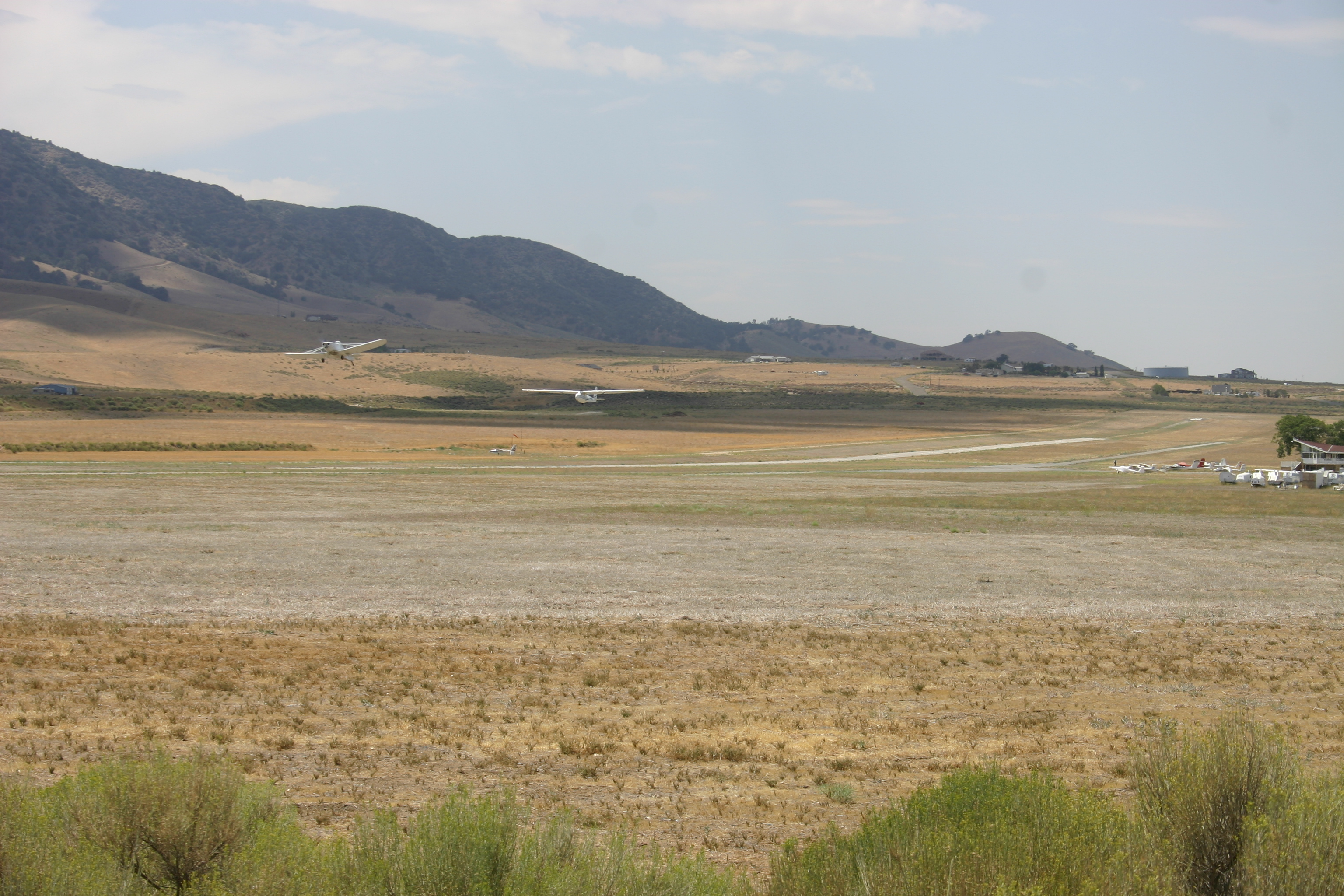 A tow plane and glider taking off from Mountain Valley Airport in Tehachapi, California